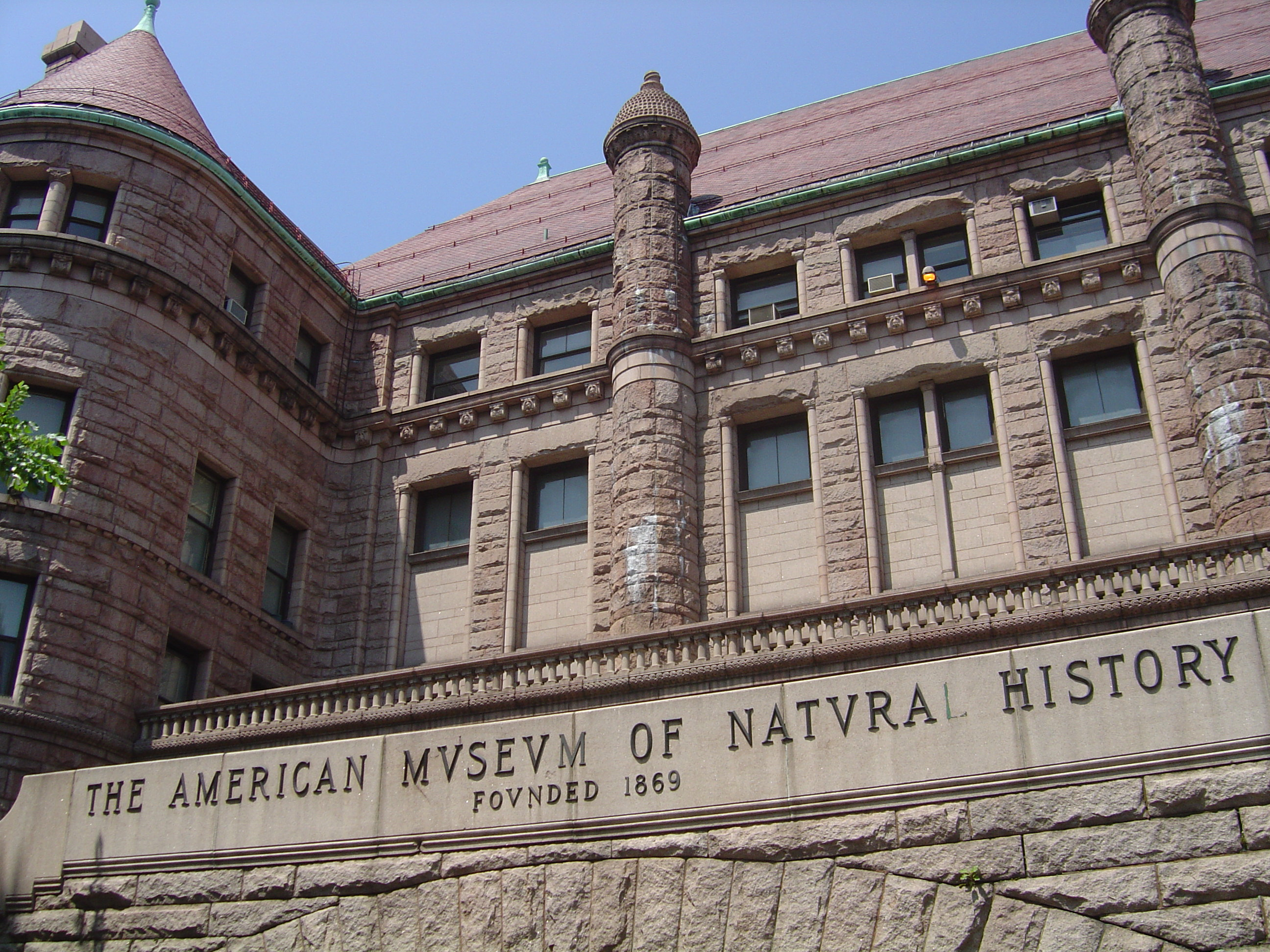 Photo of side entrance of American Museum of Natural History